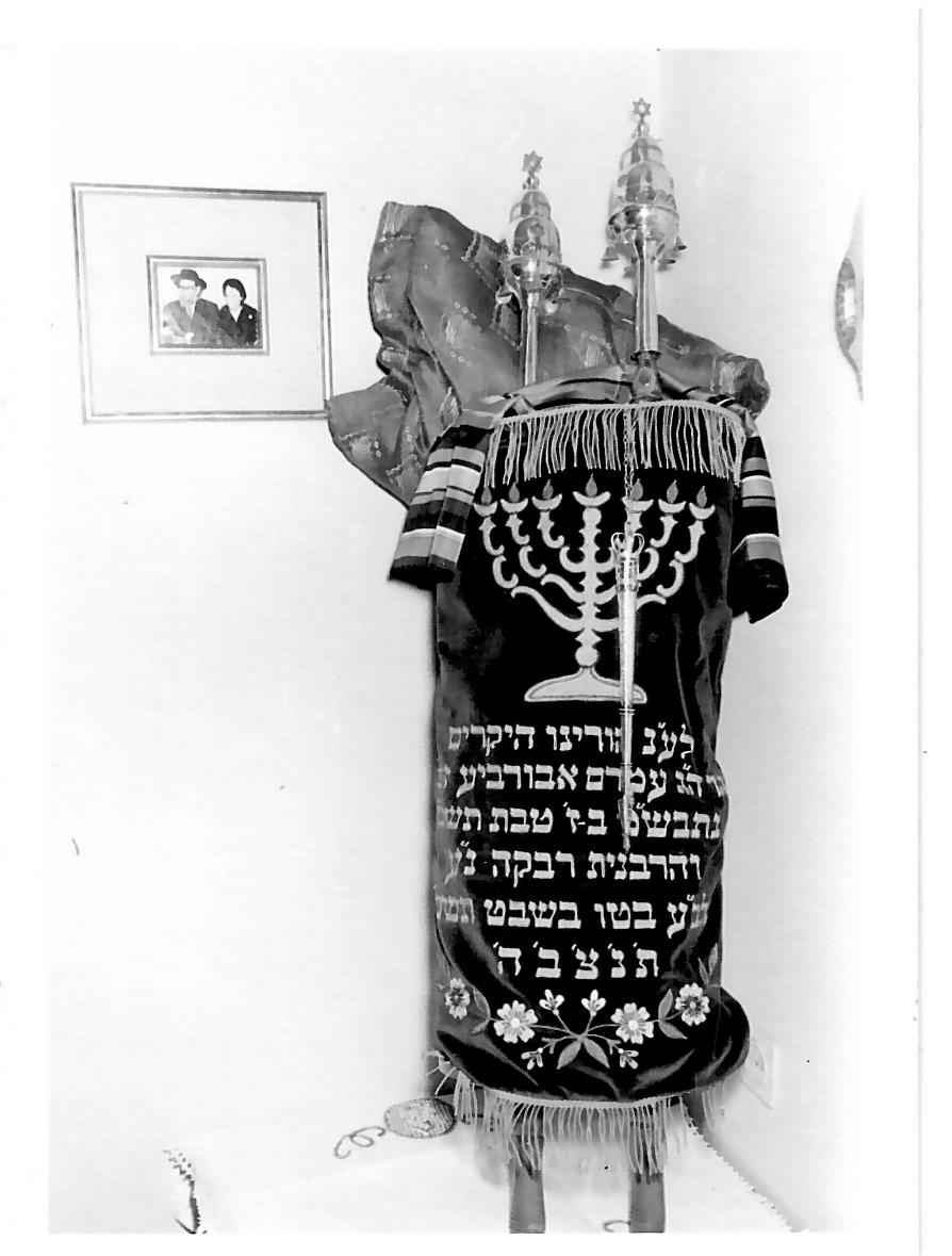 A Sefer Torah was written as a memorial to honor Rabbi Amram Aburbeh and his wife Rivka. It was donated by their sons and daughter in 1968 to The Big Sephardi Synagogue in Petach Tikva called Beit Avraham. Later it was transferred to Mishkan Yonah synagogue in Petach Tikva. In 2017 The Torah scroll was borrowed by the Arbel religious elementary school synagogue in Nof Hagalil.